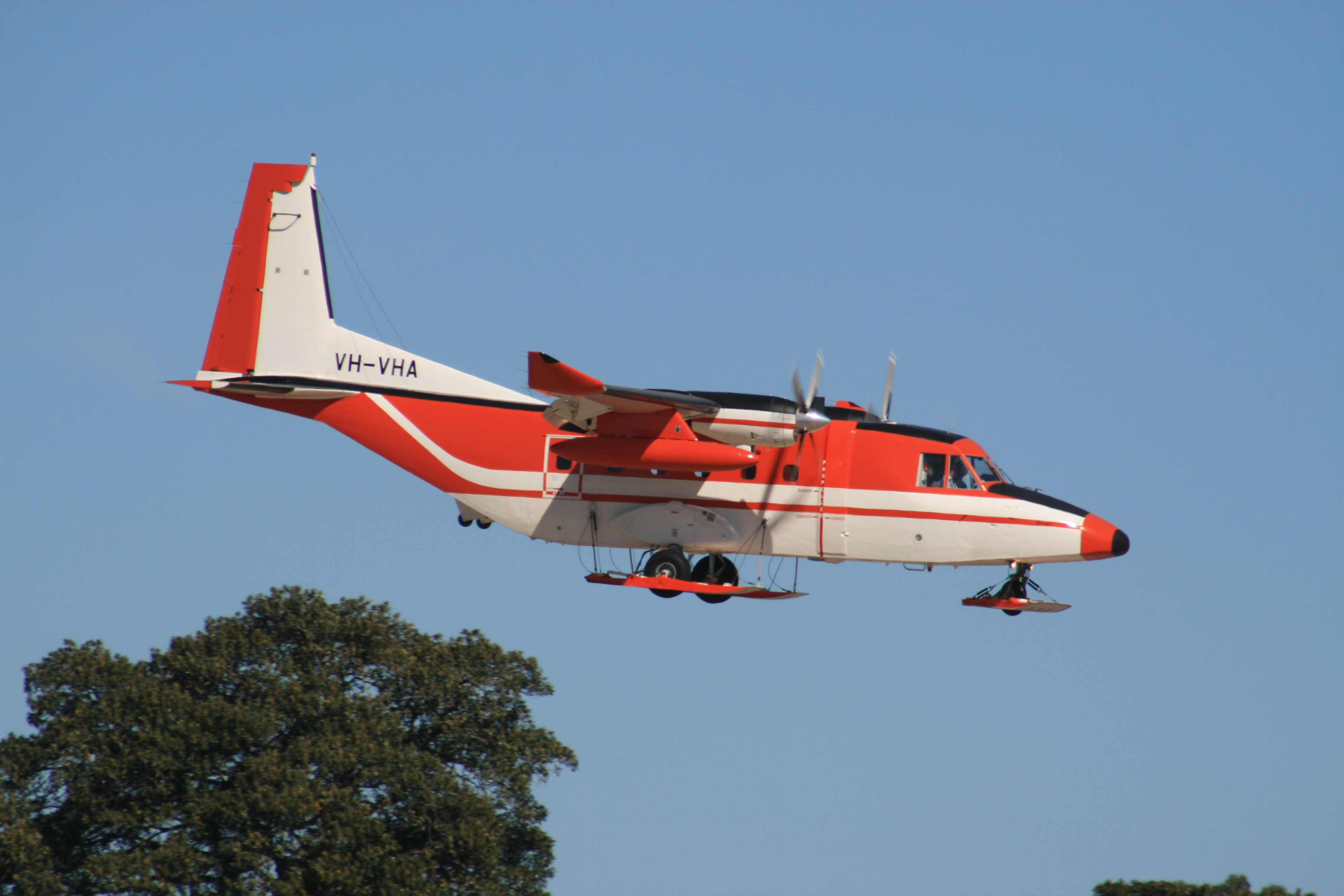 A Skytraders ski-equipped CASA 212 about to land at Sydney Airport. Digital image of VH-VHA uploaded for use in the Skytraders article.